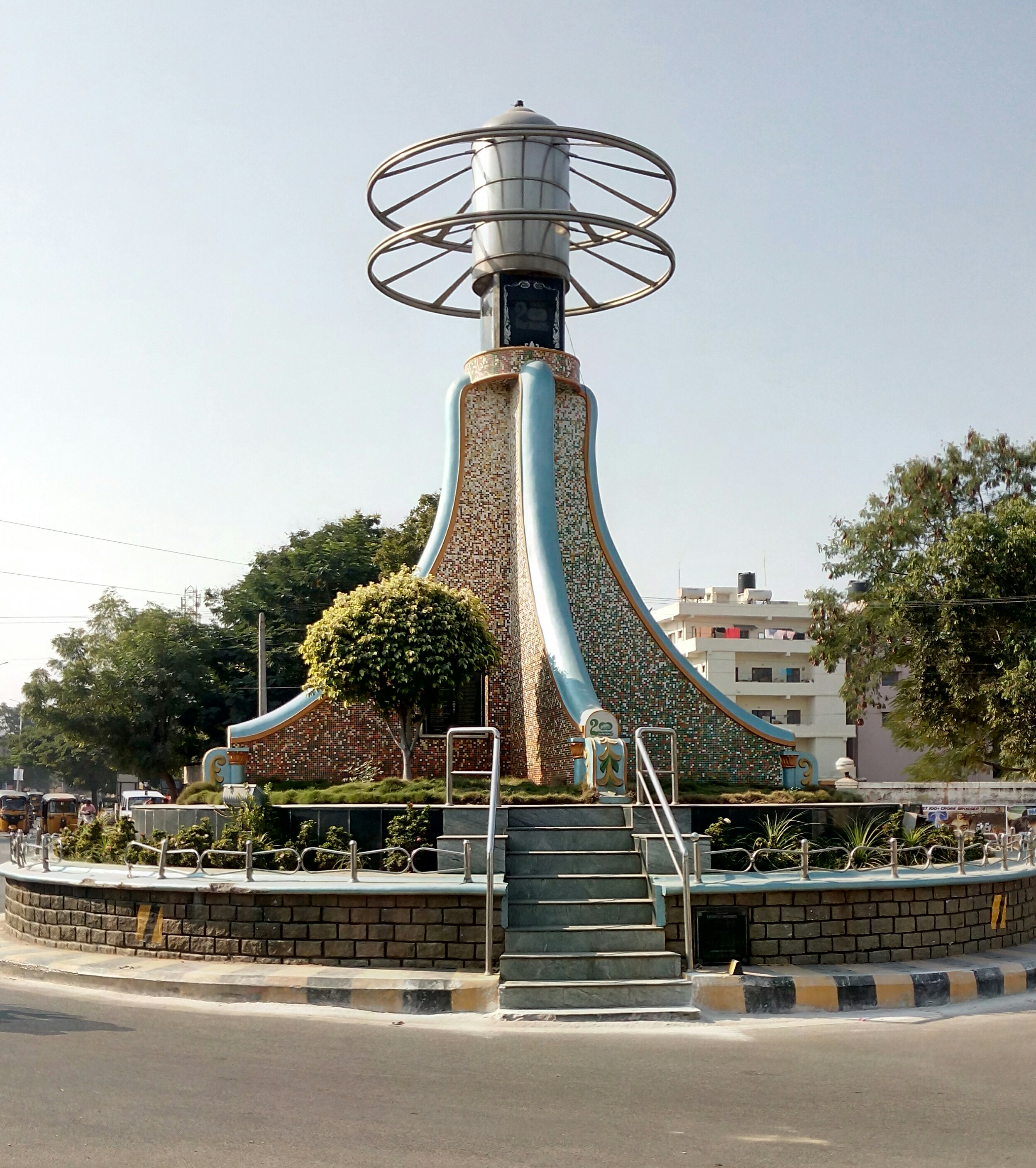 200 years memorable pylon